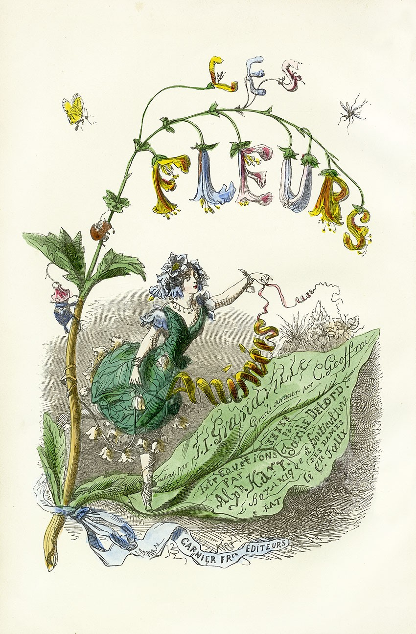 Title page from "Fleurs Animées" by the french artist Grandville (1803-1847).